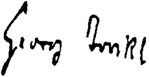 Signature of Georg Trakl